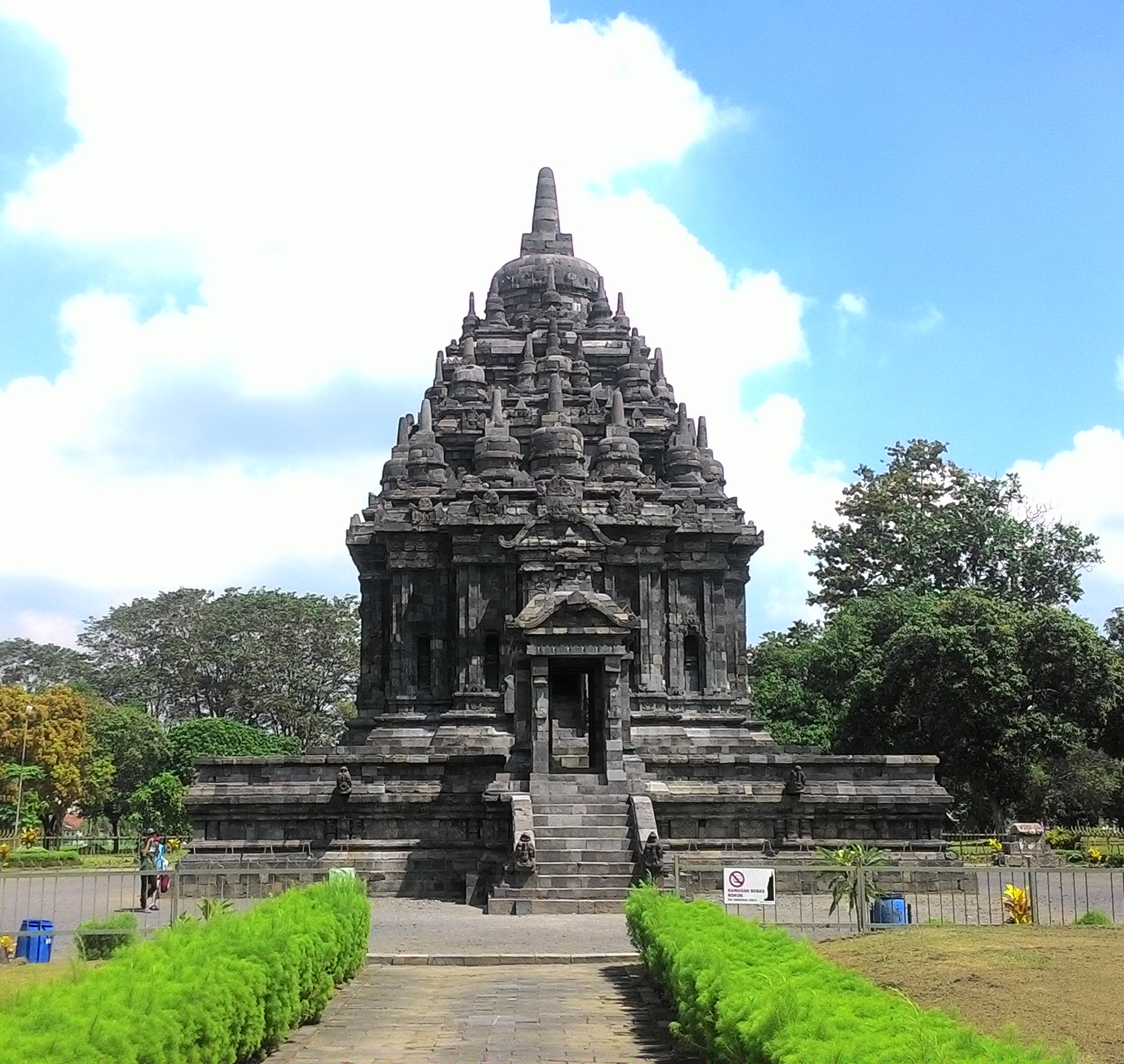 A front view of Candi Bubrah, a 9th century Javanese Buddhist temple in 2019, after the reconstruction. The temple is located in Prambanan Archaeological Park, Central Java, Indonesia.